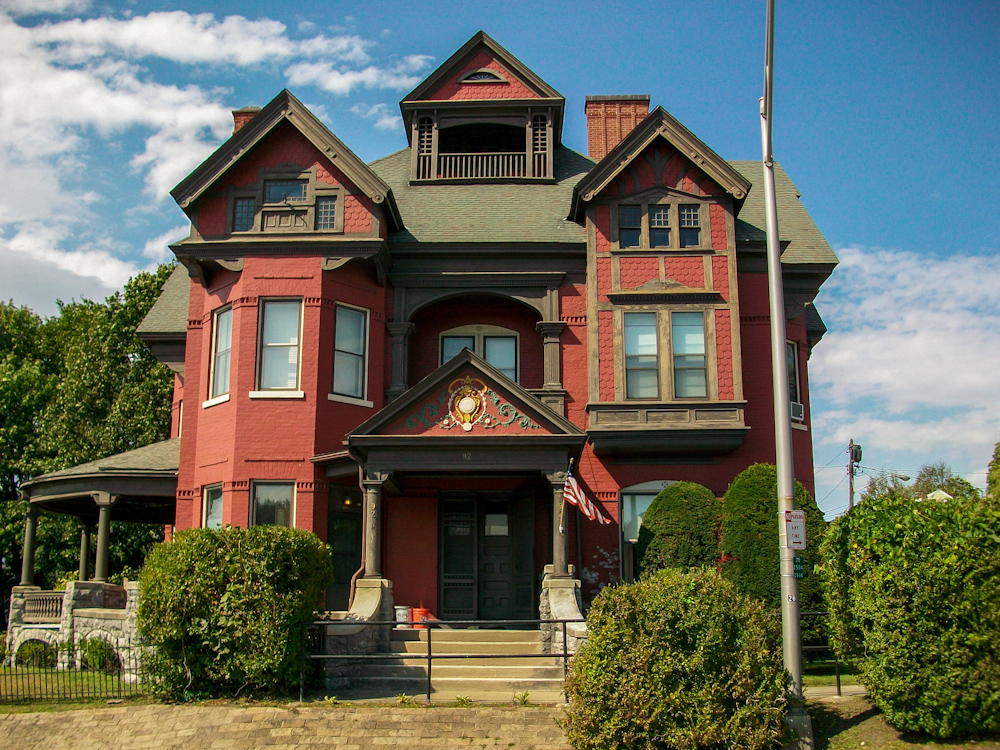 The front of the Greene Mansion in Amsterdam, NY